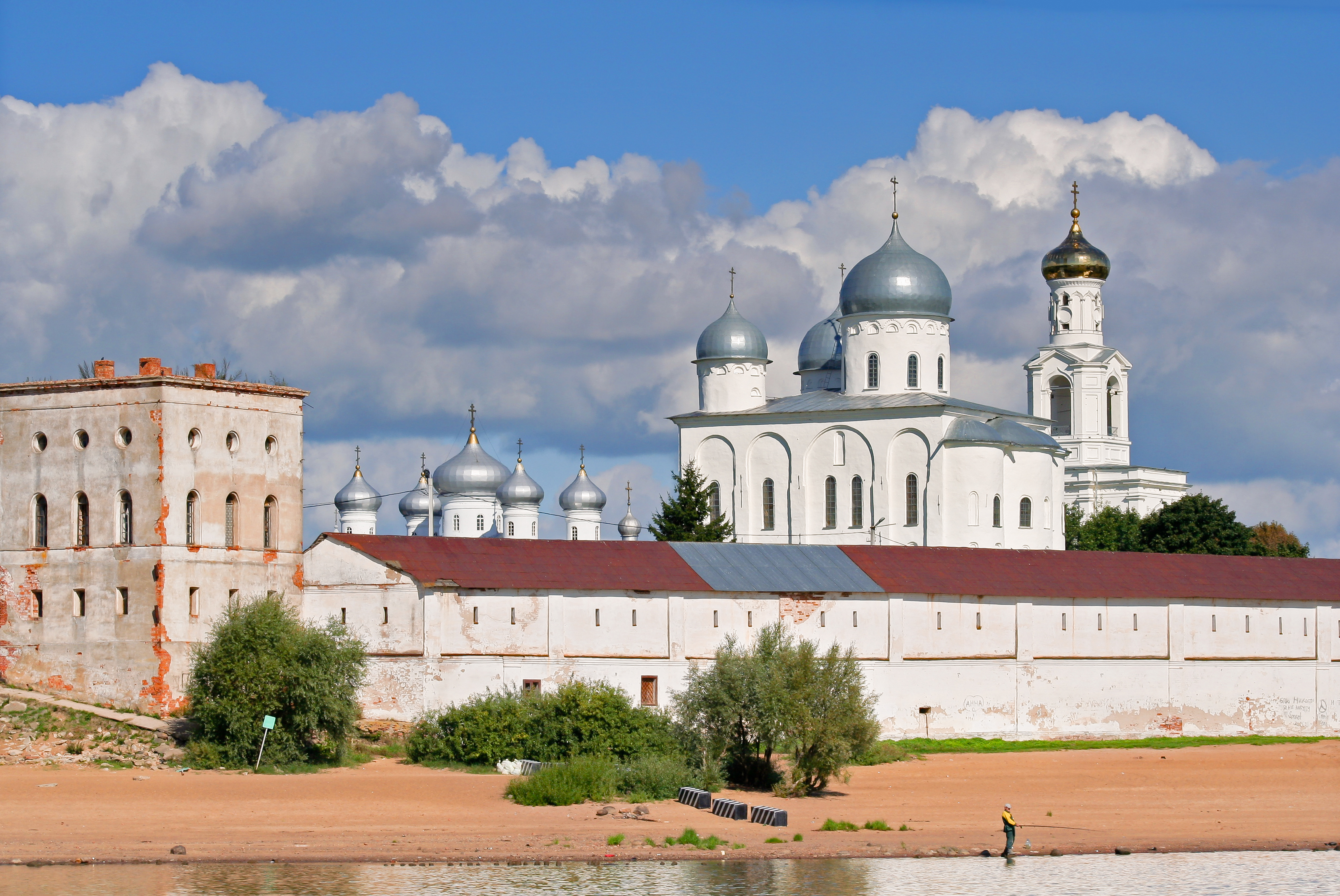 Views of Velikiy Novgorod. The Yuriev Monastery as seen from the river.